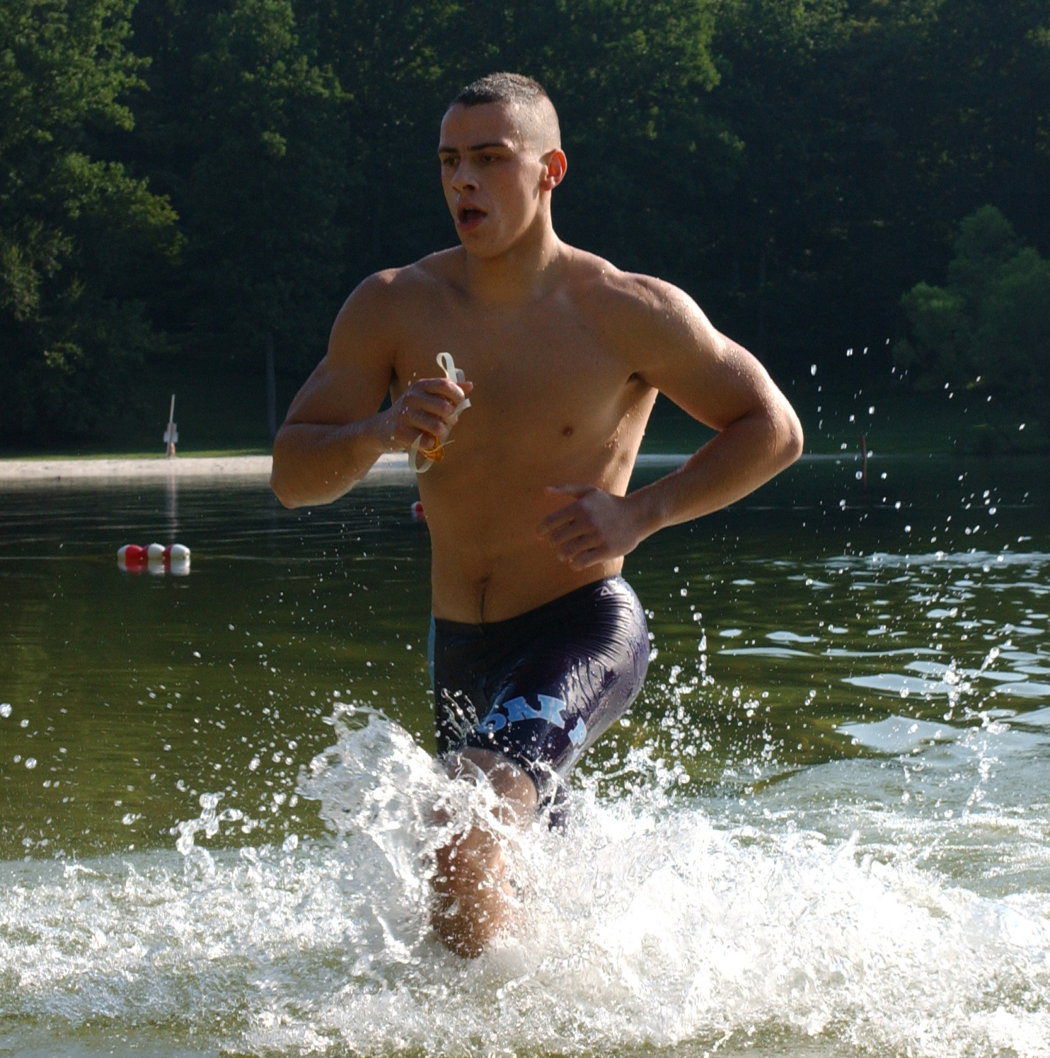 Lance Corporal Anthony M. Madonia emerges from the water during the swimming portion of the triathlon. Marines and Sailors of Marine Security Company and the Naval Support Facility in Thurmont, Maryland, participated in the Catoctin Mountain Triathlon